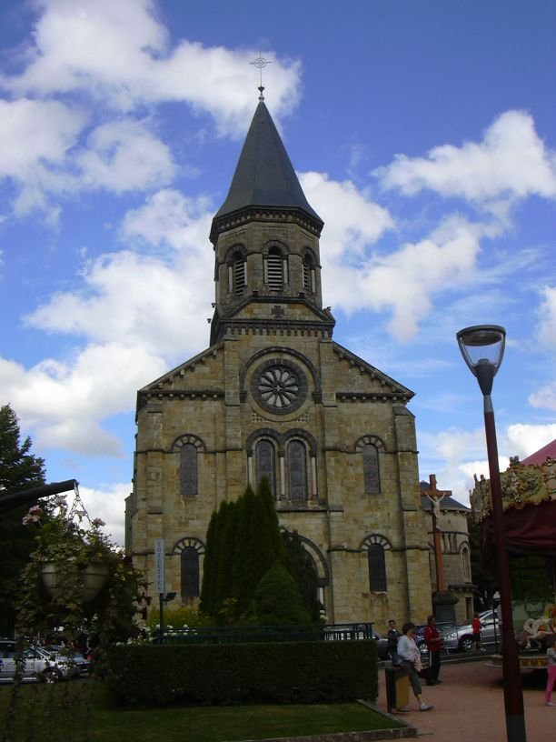 Saint-Joseph church of La Bourboule (Puy-de-Dôme, Auvergne, France).